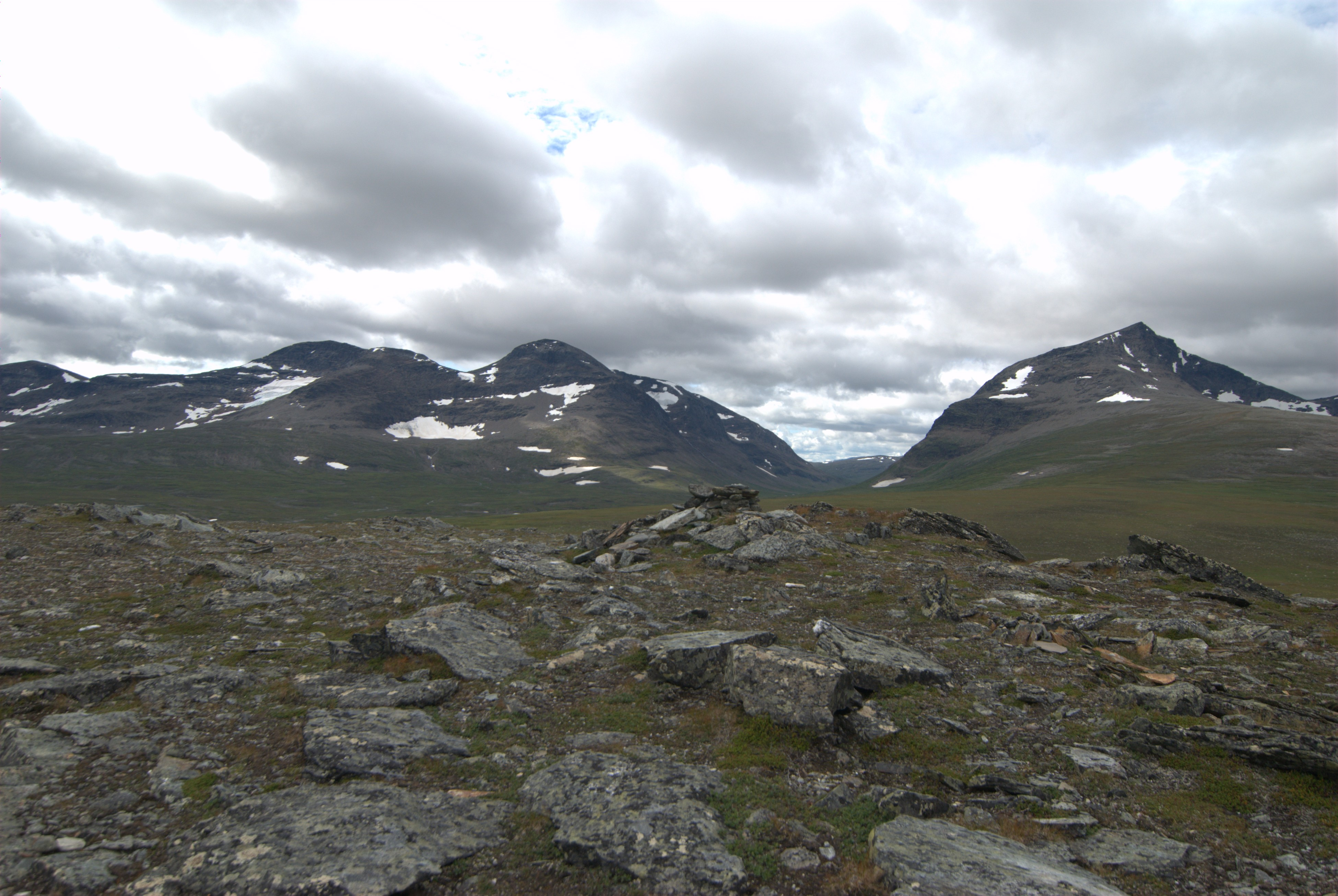 Syterpasset seen from the east, in Kungsleden trail, Vindelfjällen, Swedish Lapland.